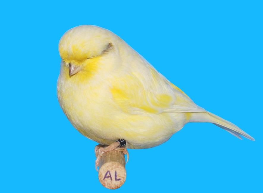 Gloster consort